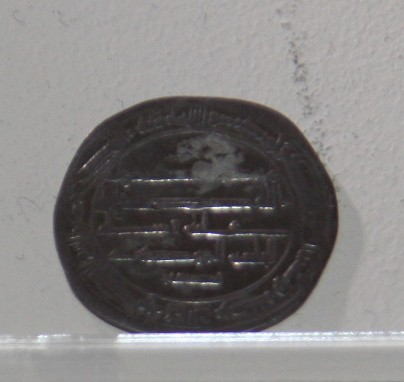 Silver dirhams of Shirvanshah I Fariburz